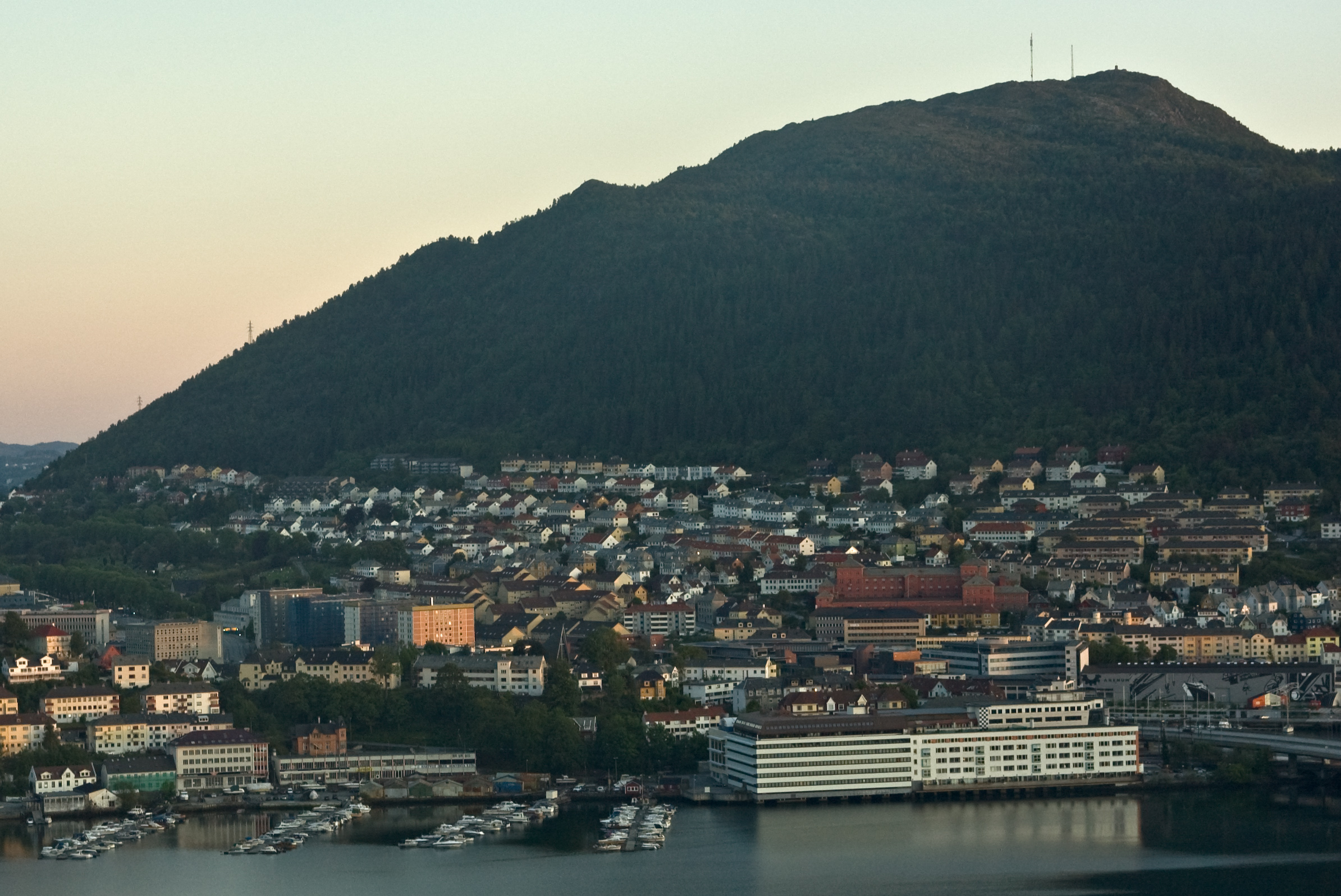 The neighbourhood of Solheim and mount Løvstakken in Bergen, Norway.